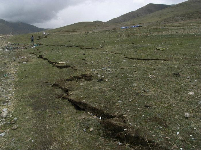 Earthquake cleft in the grassland, more than one month after the Yushu earthquake of April 14, 2010